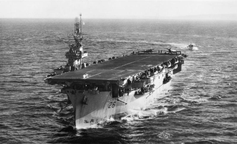 British Bogue/Ameer class escort aircraft carrier HMS SLINGER underway at sea as seen from one of her aircraft.